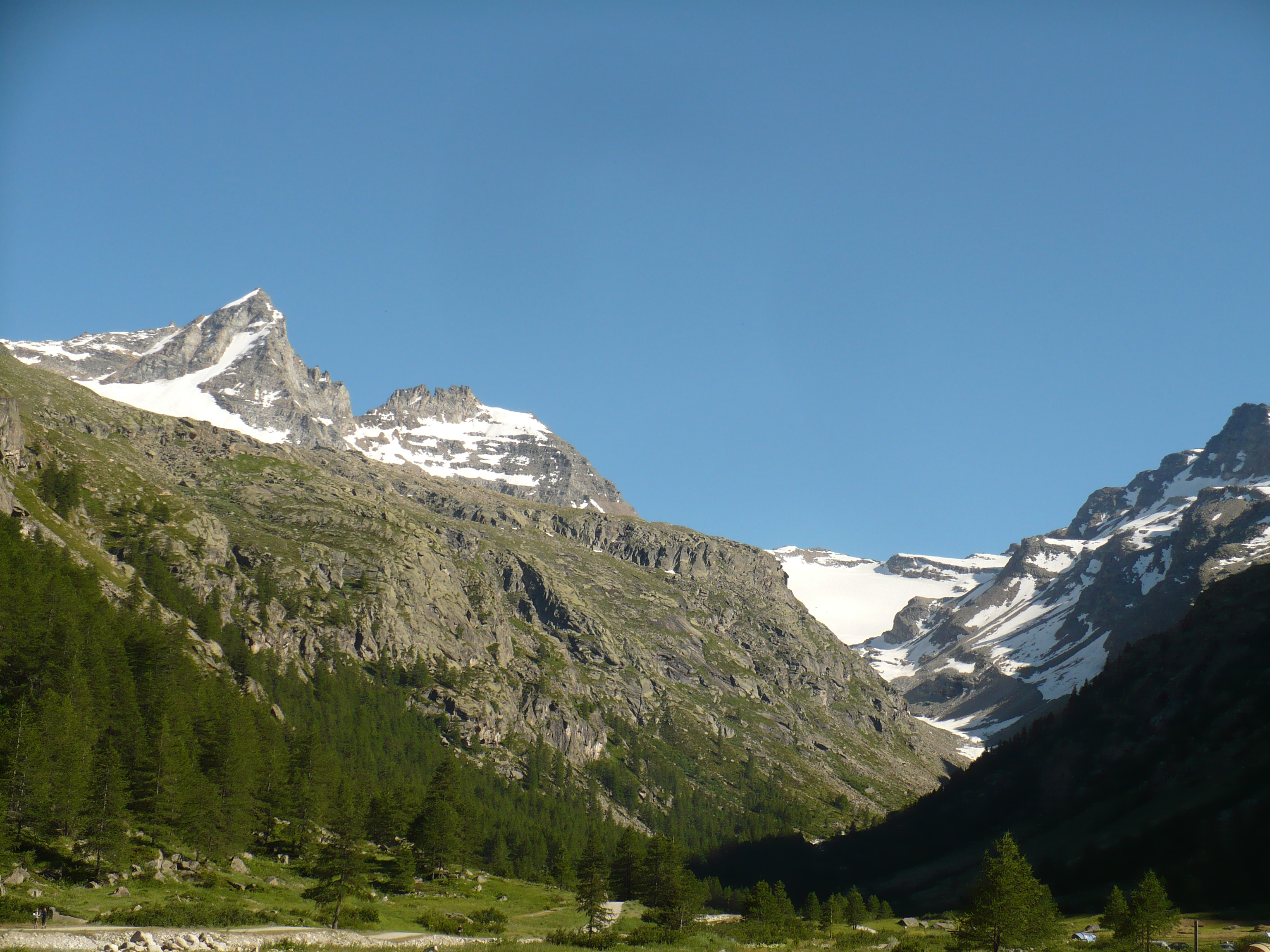 Valsavarenche, Aosta Valley, Italy